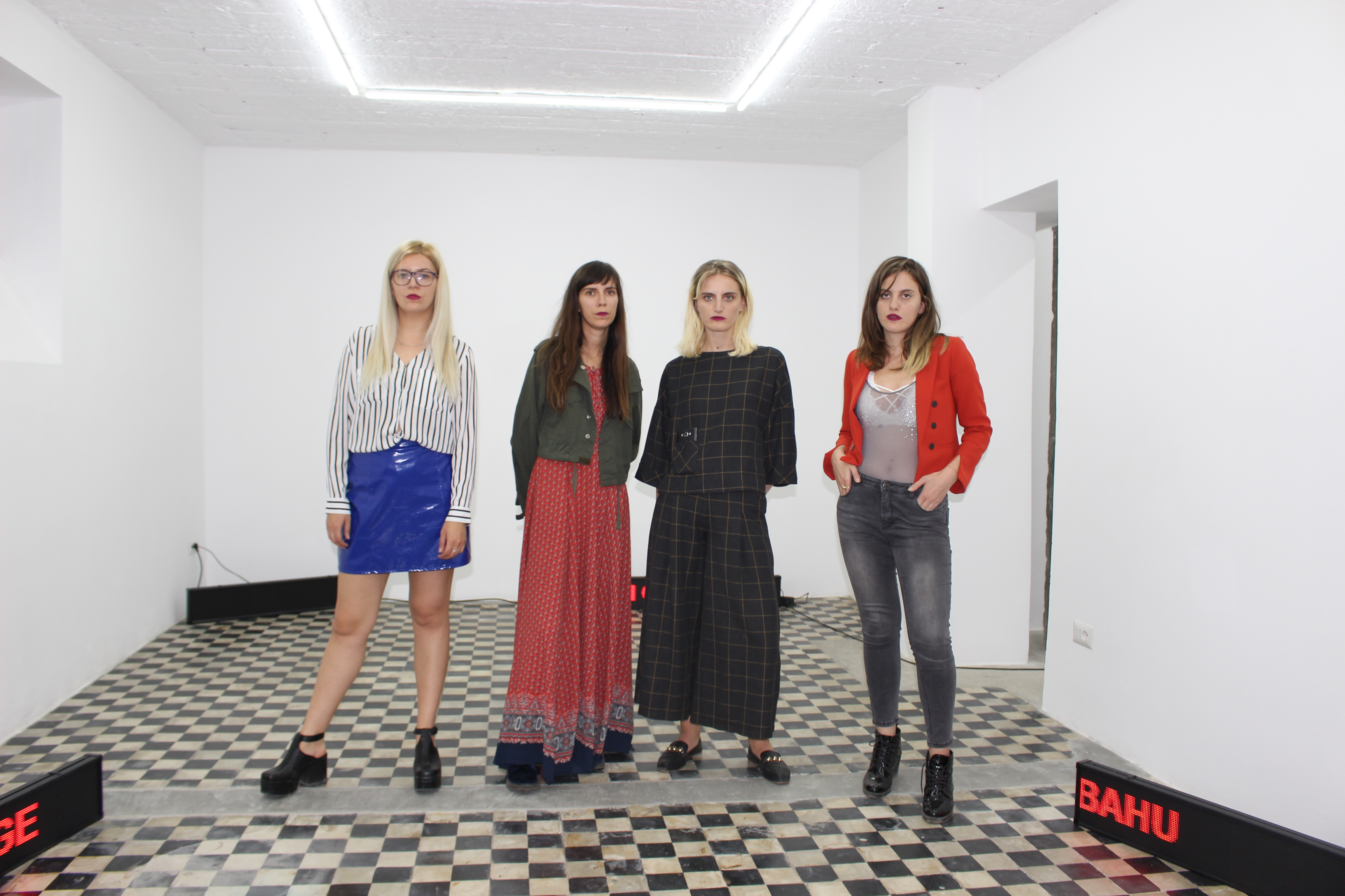 "Haveit" during their performance and installation “Kafsha e Keqe / Wild Beast”, Tiranë, 2018.